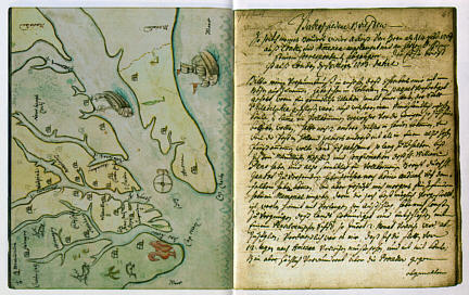 One of the earliest maps of Williamsburg (Middle Plantation), drawn by Franz Michel, a native of Switzerland who traveled to America. Michel's fanciful map shows ships, deer and a turkey, as well as Williamsburg "between the Jems and Jorgk Rivier, six miles from the Jems and ten from Jorgtown." On the page facing the map is a letter from Michel to his brother Hans.